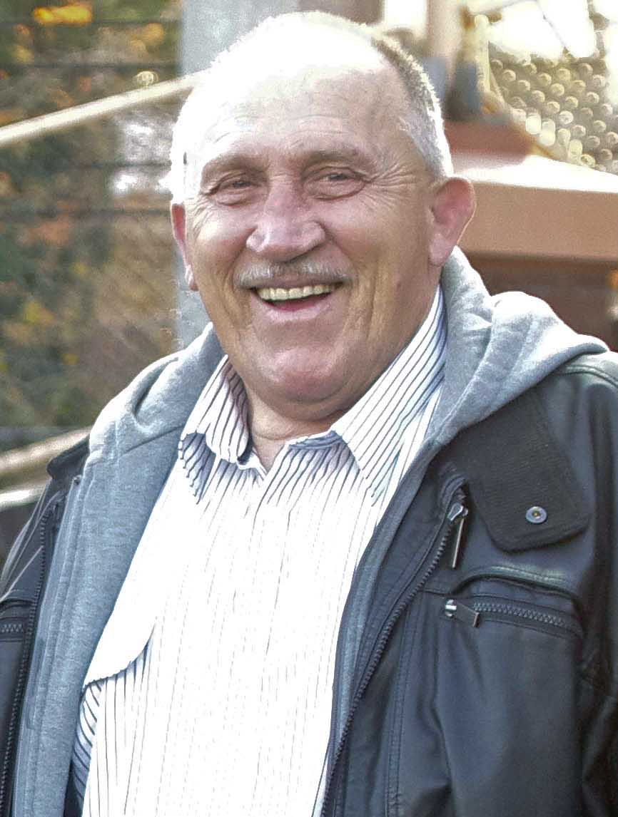 Mark Harris, former Australian professional rugby league footballer